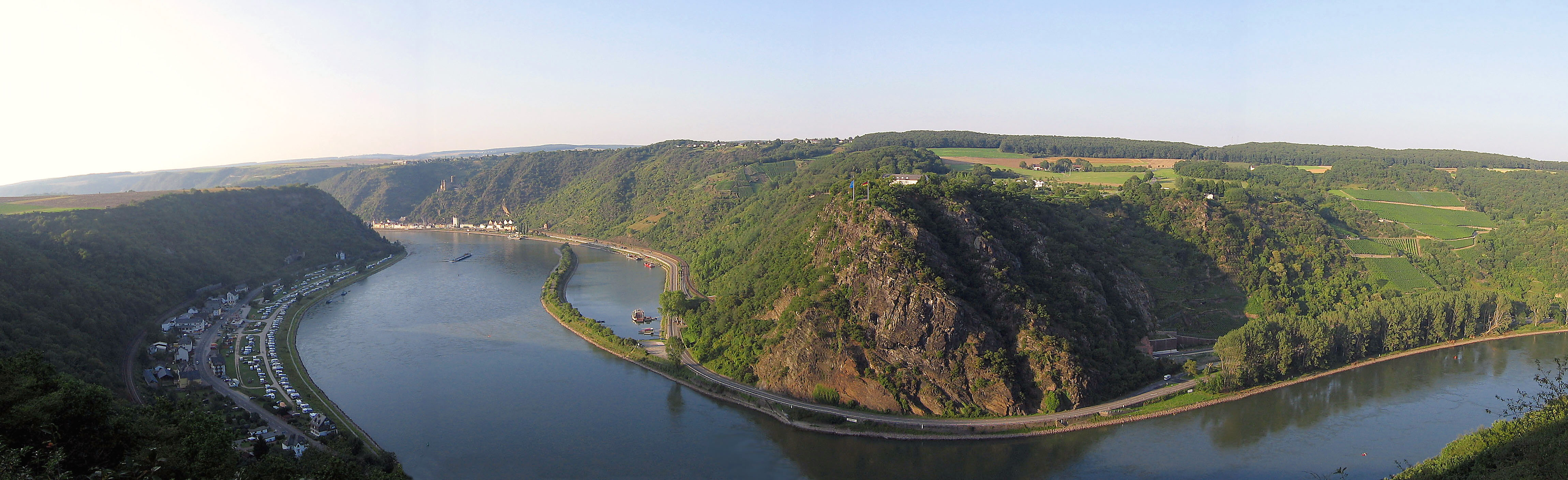 View from Urbar (left side of the river Rhine) onto the Loreley-rock and the Upper Middle Rhine Valley. Up-left the harbour of St. Goarshausen and the city itself, below on the left side the campground of St. Goar.